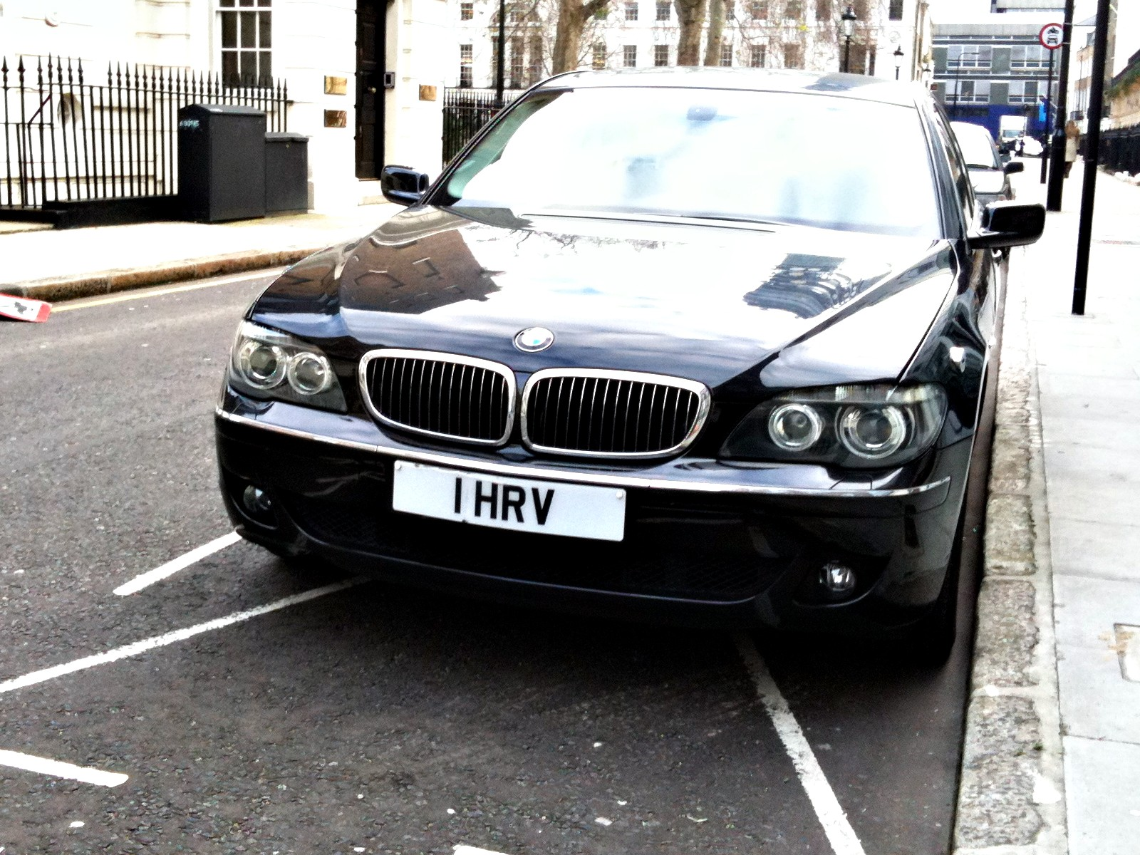 Diplomatic car of the Croatian embassy in London with a vanity number plate (1 HRV)